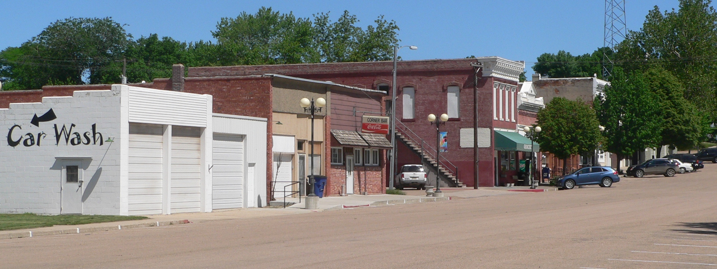 Downtown Odell, Nebraska: west side of Main Street, looking northwest from about Railway Street.